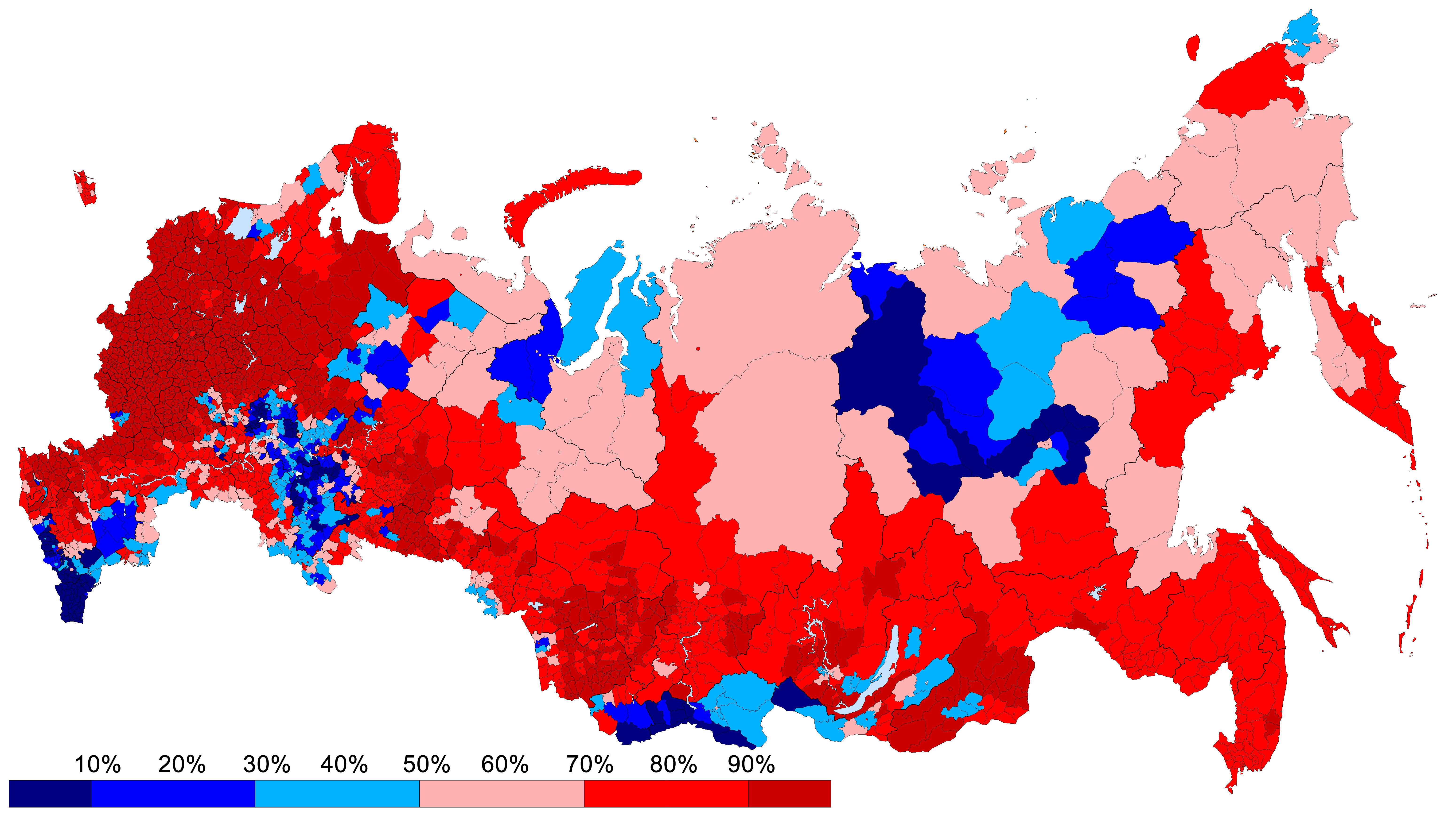 Percentage of ethnic Russians in 1989 in RSFSR raions (dictricts)